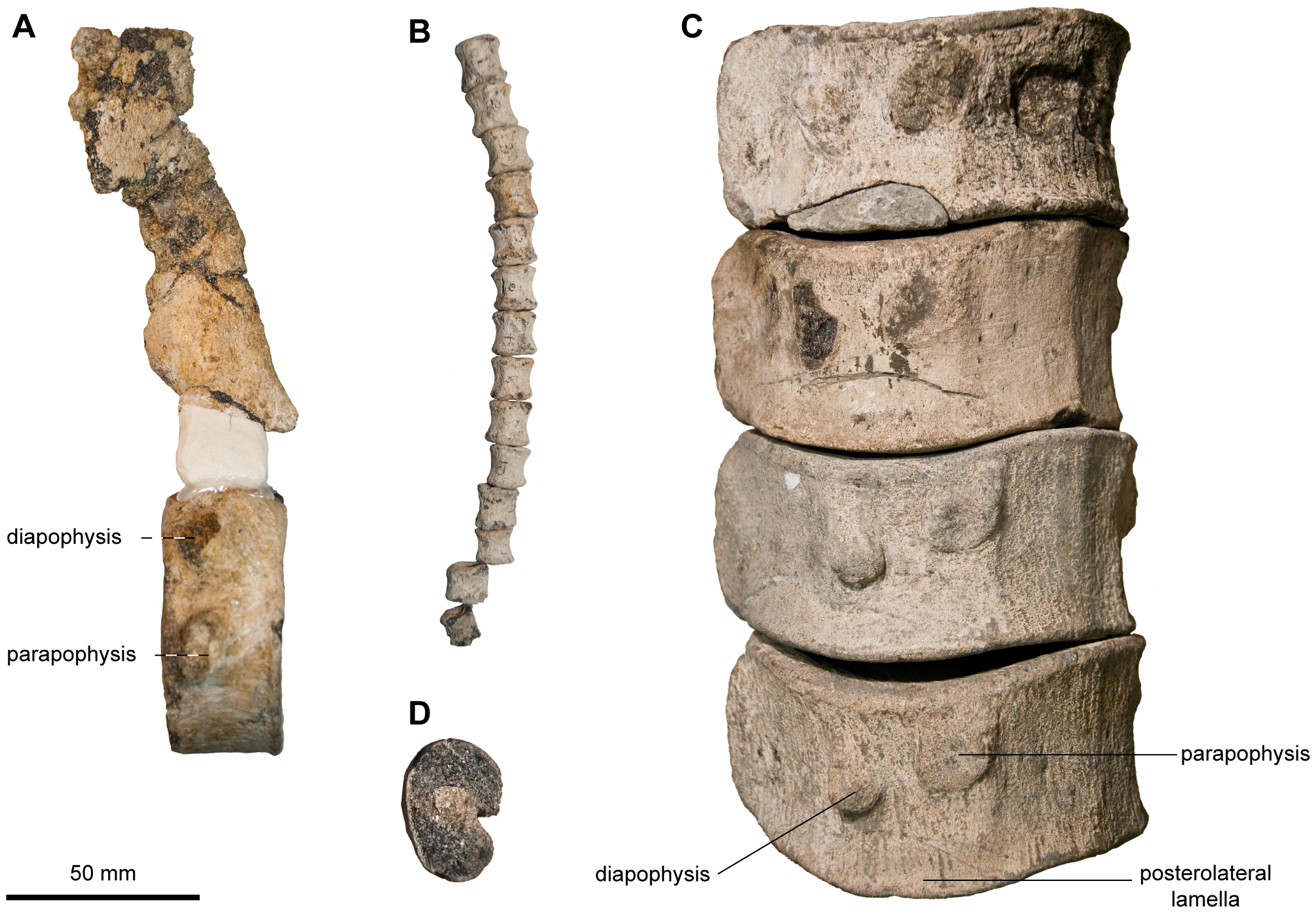 Diagnostic features of the axial skeleton of Acamptonectes densus. A: anterior dorsal centrum and associated neural spine of SNHM1284-R, showing the large size of the neural spine with respect to the centrum height. B: series of posterior postflexural centra of SNHM1284-R showing their square shape (H/L≈1). C: series of posterior dorsal centra of GLAHM 132588 (holotype), showing the markedly curved profile of the posterolateral lamella. D: cross-section of a rib of NHMUK R11185 showing their robust morphology and the minute groove occurring on one side only.